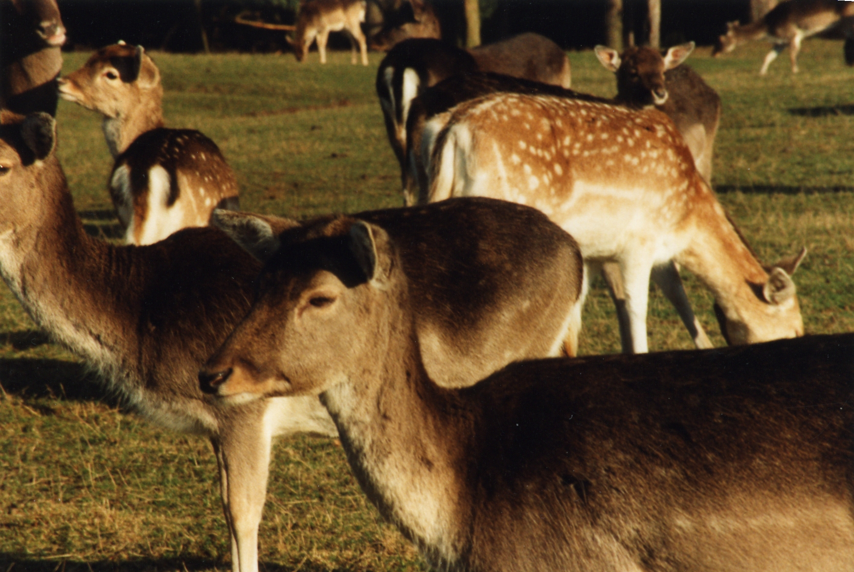 Fallow deer, at the Sigean zoological park, Languedoc-Roussillon, France